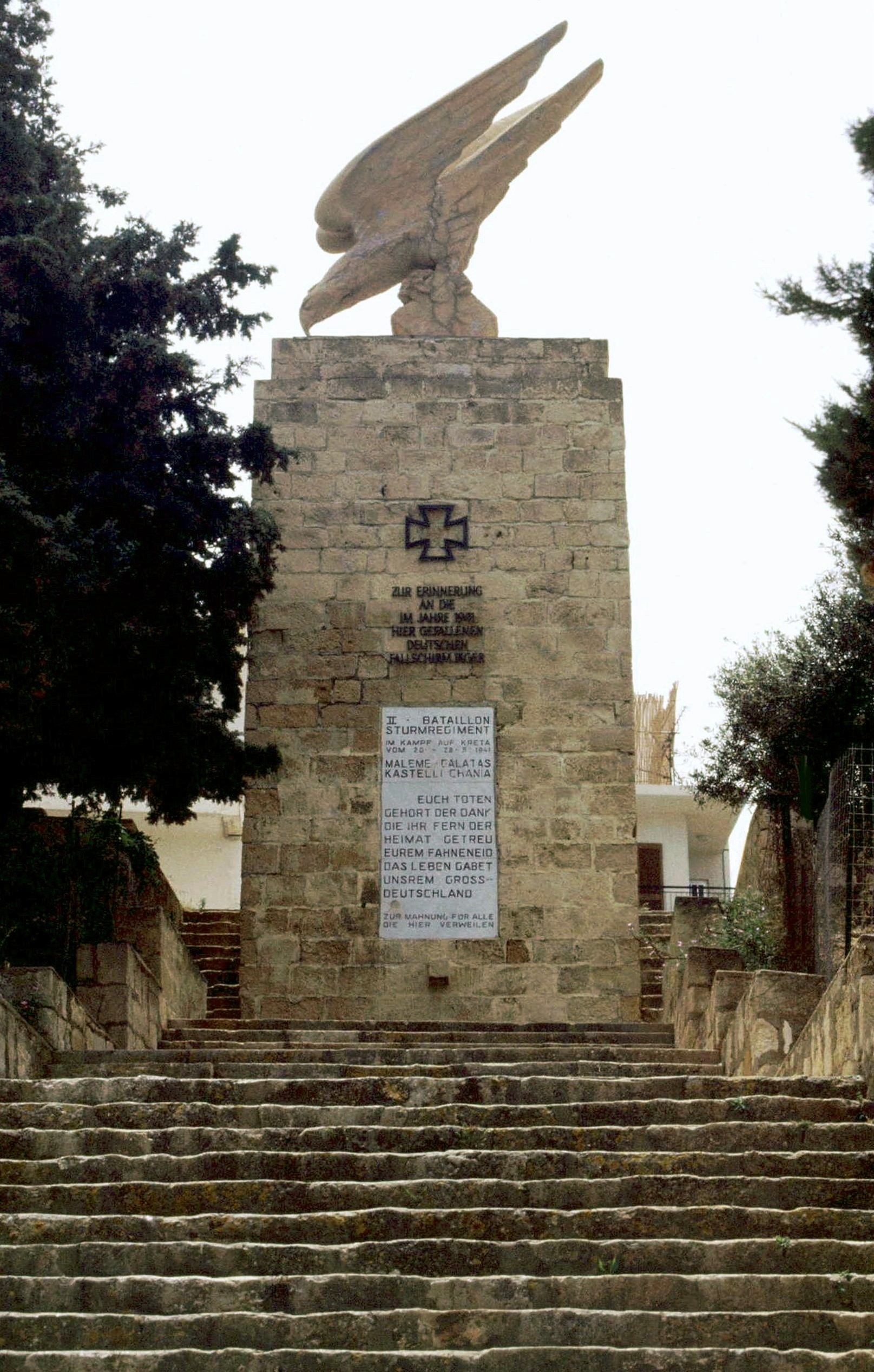 German war memorial. It existed in this form on 1941-2001